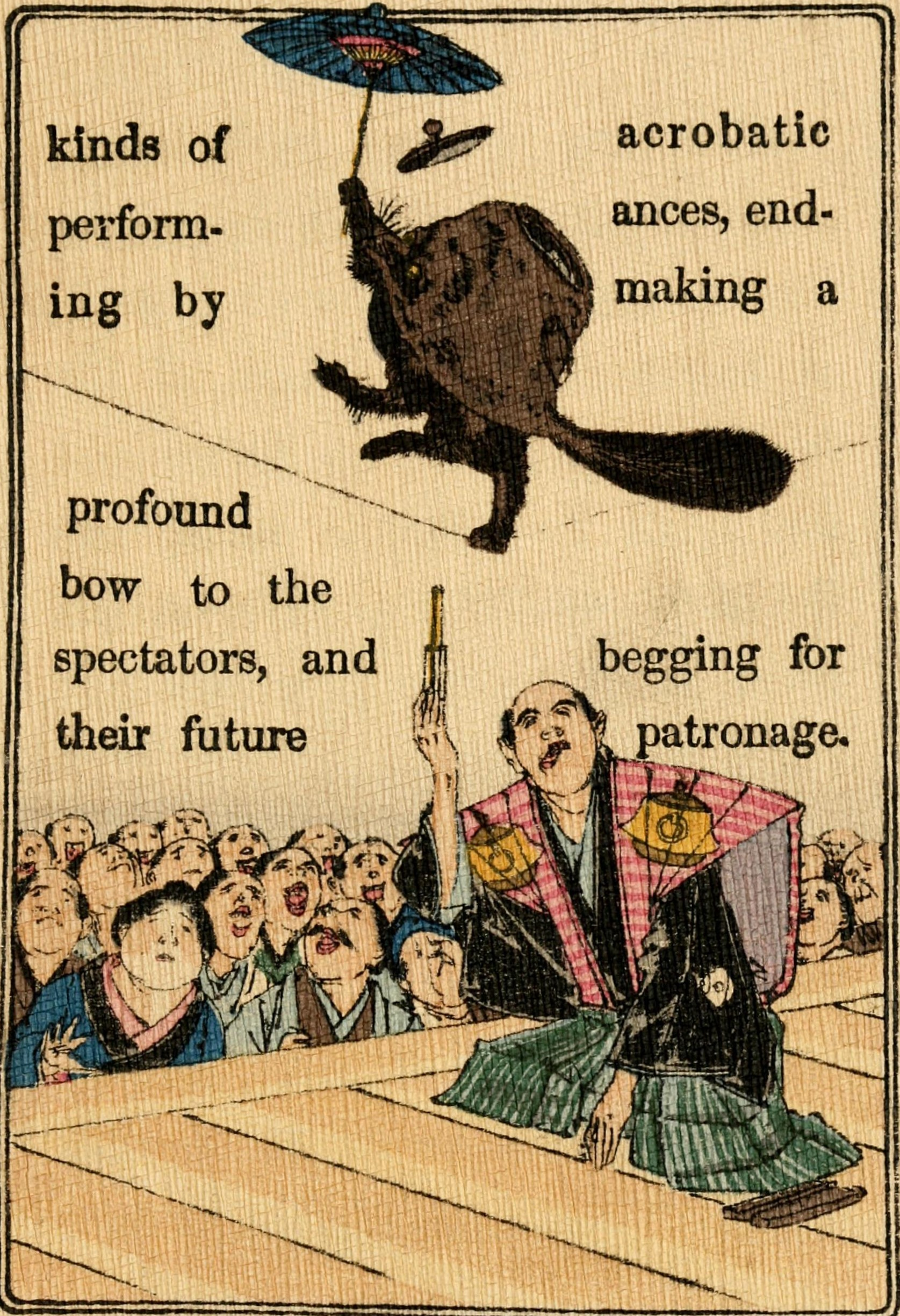 Badger kettle walks tightrope while balancing a kasa umbrella on snout. The showman underneath dressed in haori & hakama, pointing with a folding fan (sensu) is possibly the former tinker. "The Wonderful Tea Kettle", Bunbuku Chagama, crape paper book "Japanese Fairy Tale Series" No. 16